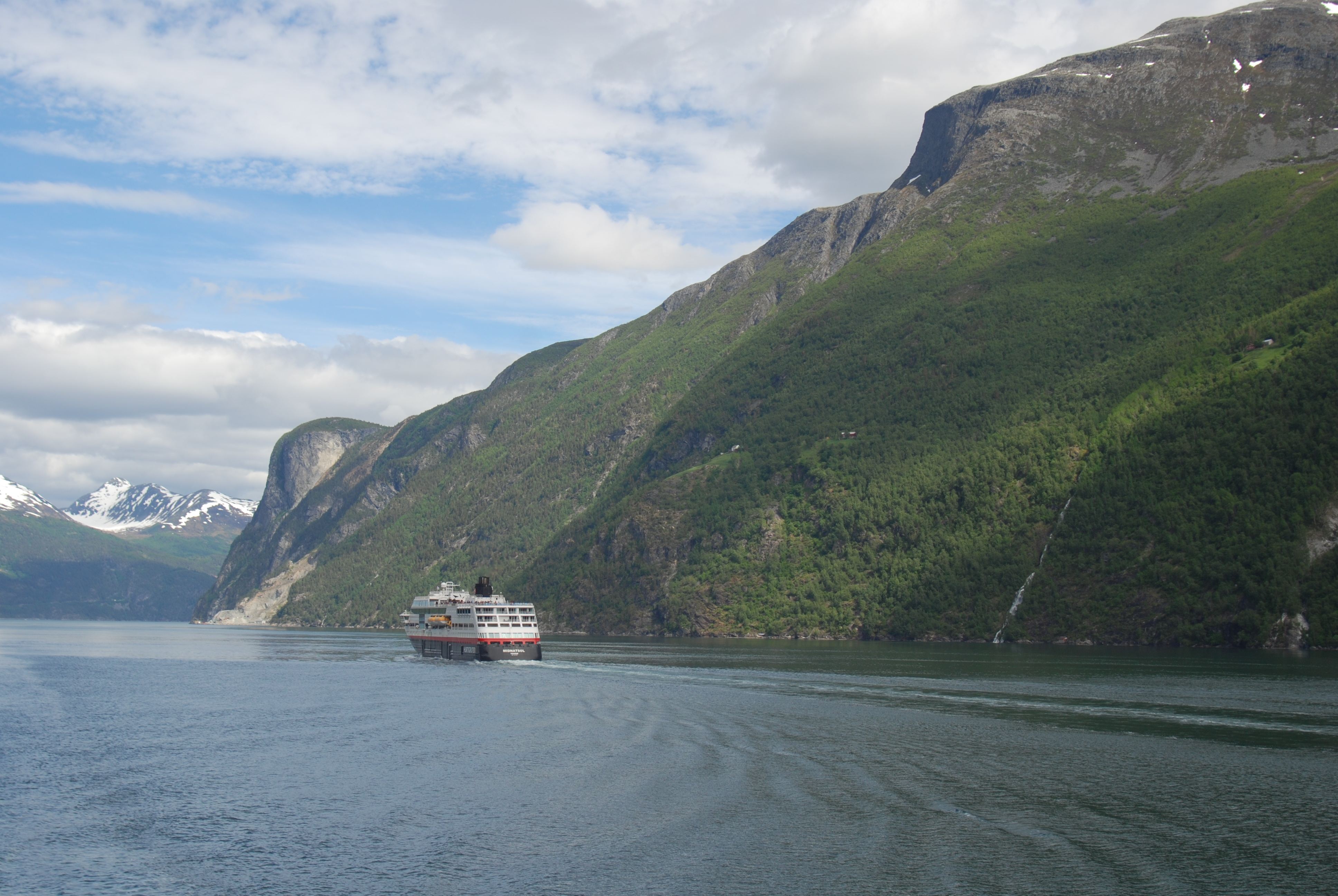 MS Midnatsol in Storfjord